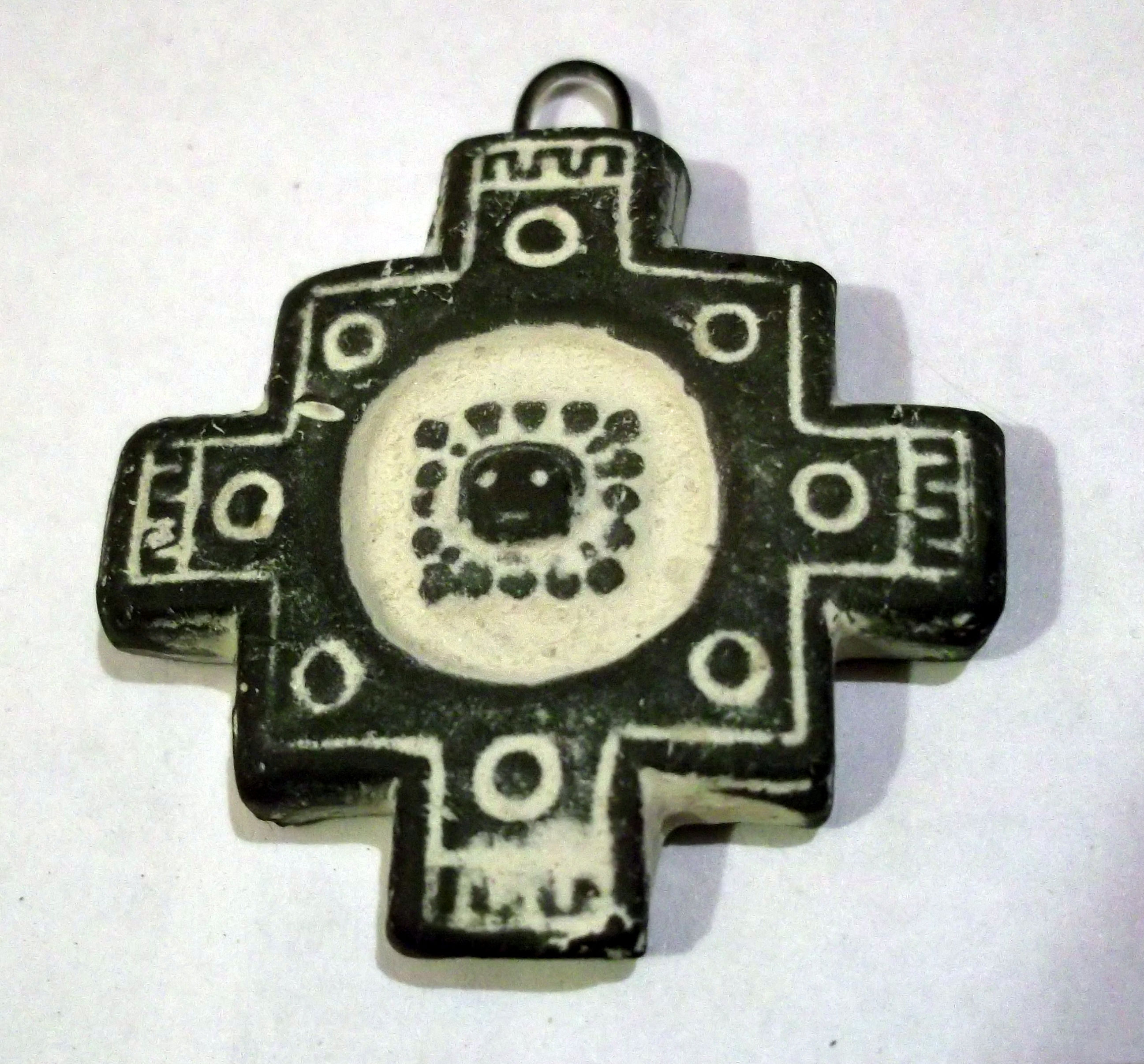 Chakana, indigenous crafts from province of Jujuy (NW of Argentina.) related with many South American cultures. Is made of polished soft stone and was buy in a street fair.